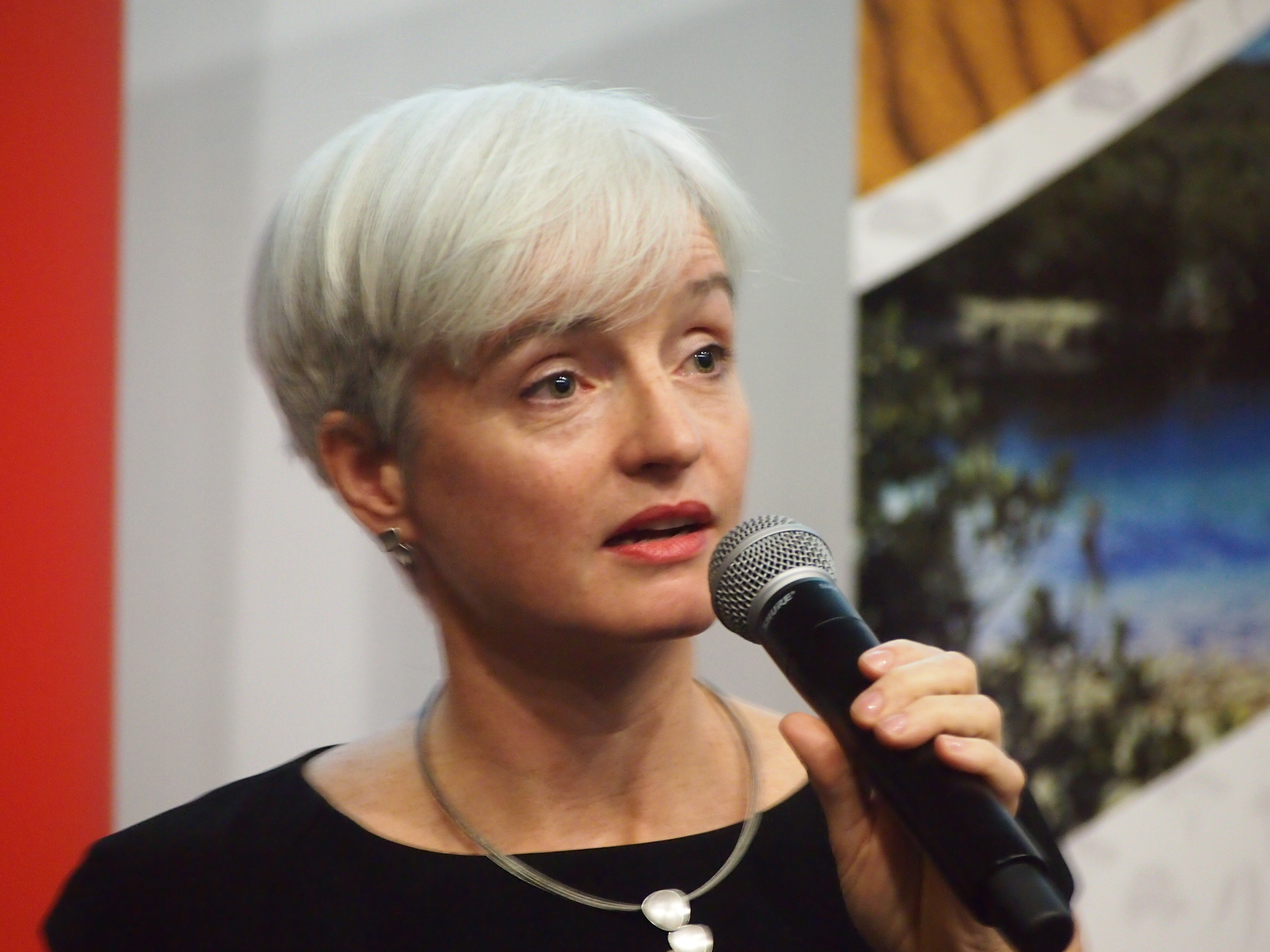 Professor Emma Johnston, giving the first keynote speech at the opening of the 2016 NRM Science Conference at the University of Adelaide, 13 April 2016. Original filename = P4138010.JPG